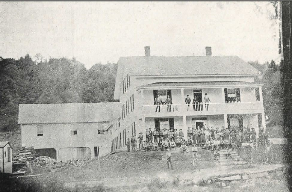 Brown Company boarding house in the early 1870’s, Berlin, New Hampshire